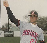 Professional baseball player Tom Lampkin